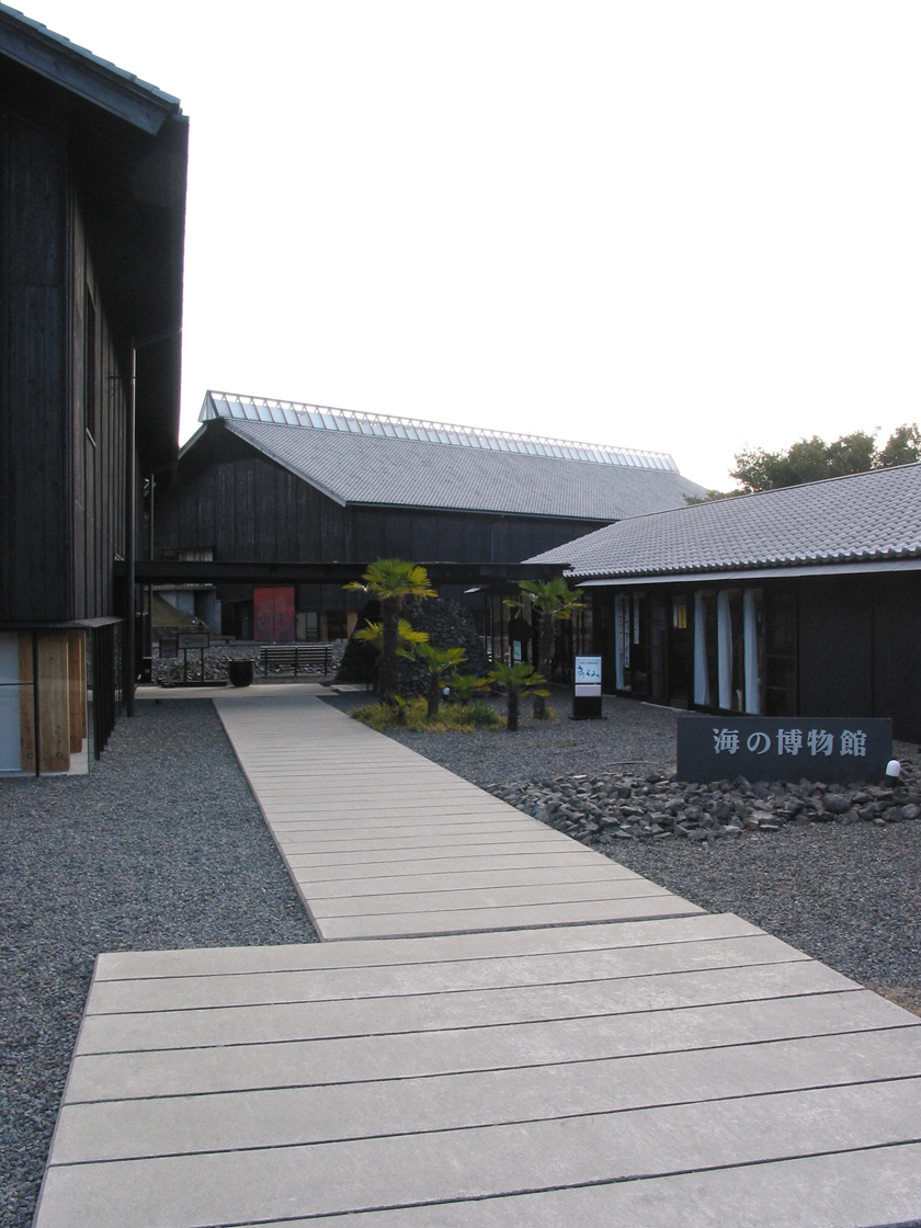 Approach to the entrance of the Toba Sea-Folk Museum 三重県鳥羽市にある海の博物館玄関への通路